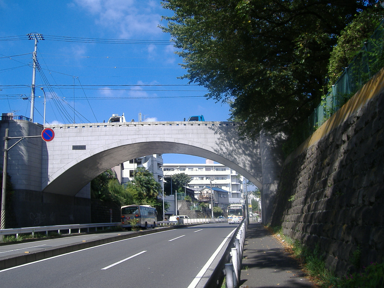 Kasumibashi(Yokohama, Japan)